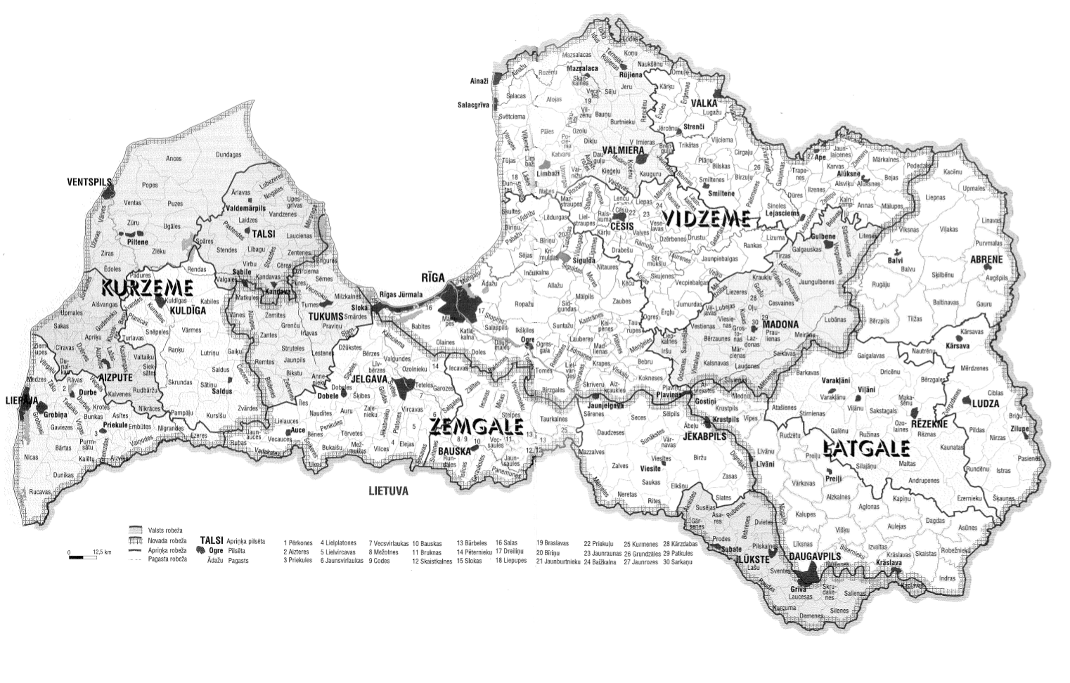 Map of Latvian counties and parishes during 1931-1945